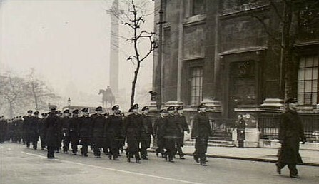 Members of the RAAF march through Trafalgar Square, London, en-route to service at St Martins-in-the-Fields for a service to commemorate Australia Day